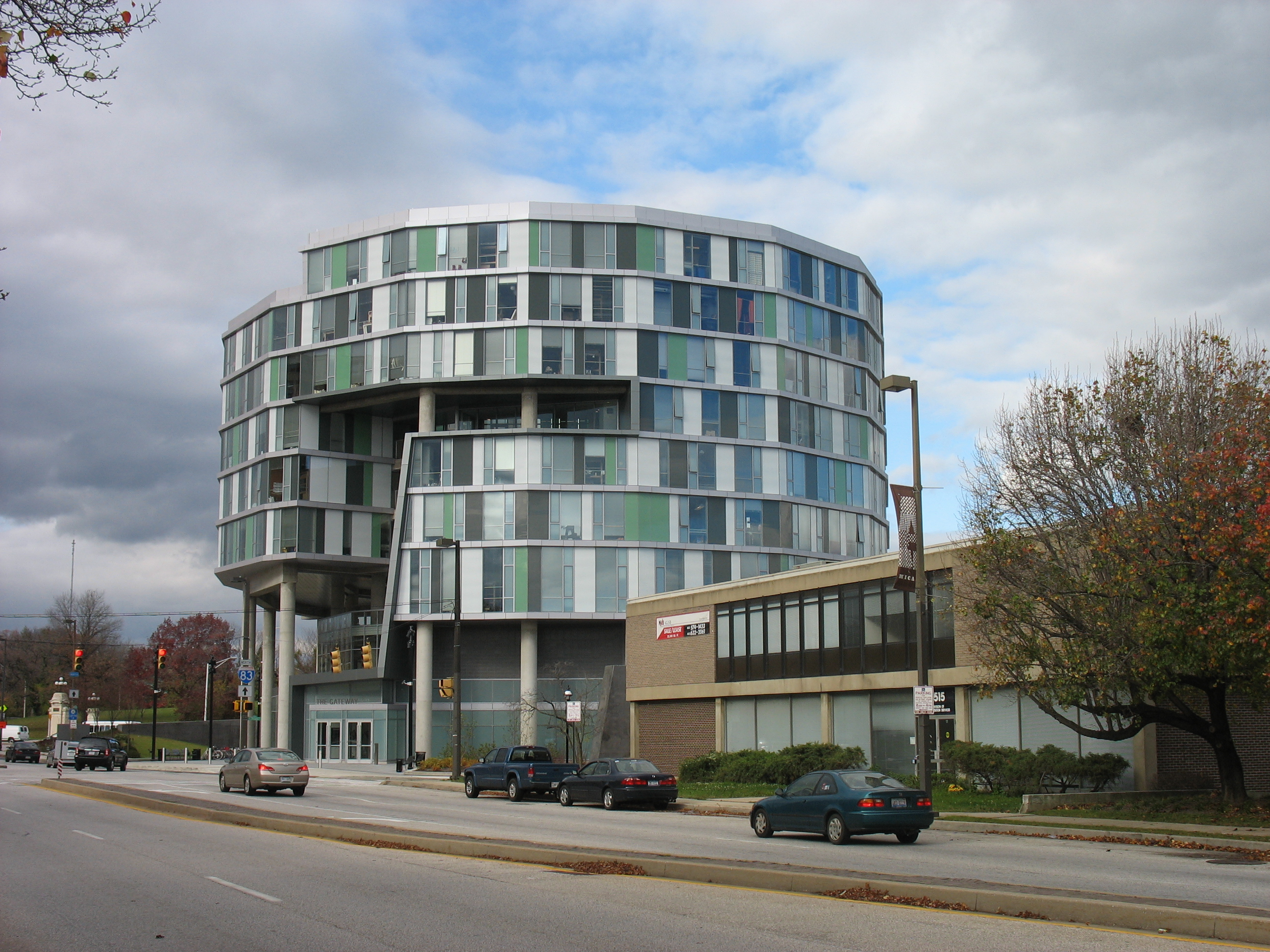 Gateway Building at the Maryland Institute College of Art, Baltimore, Maryland. Completed 2008.